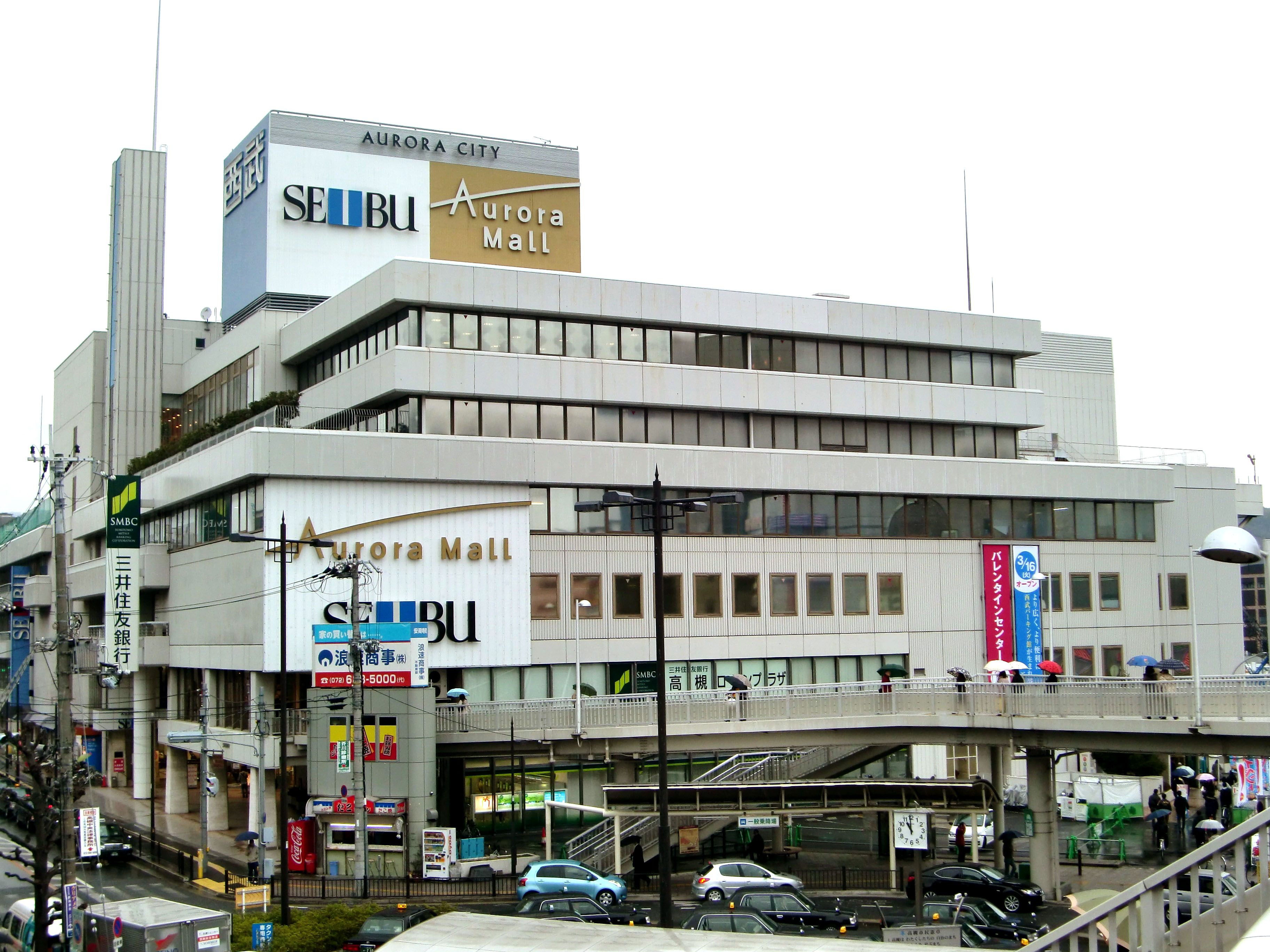 Seibu Takatsuki, 4-1 Hakubaicho Takatsuki-City Osaka Japan.